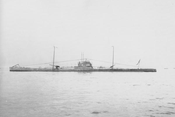 Japanese submarine Maru-3, ex-U55.